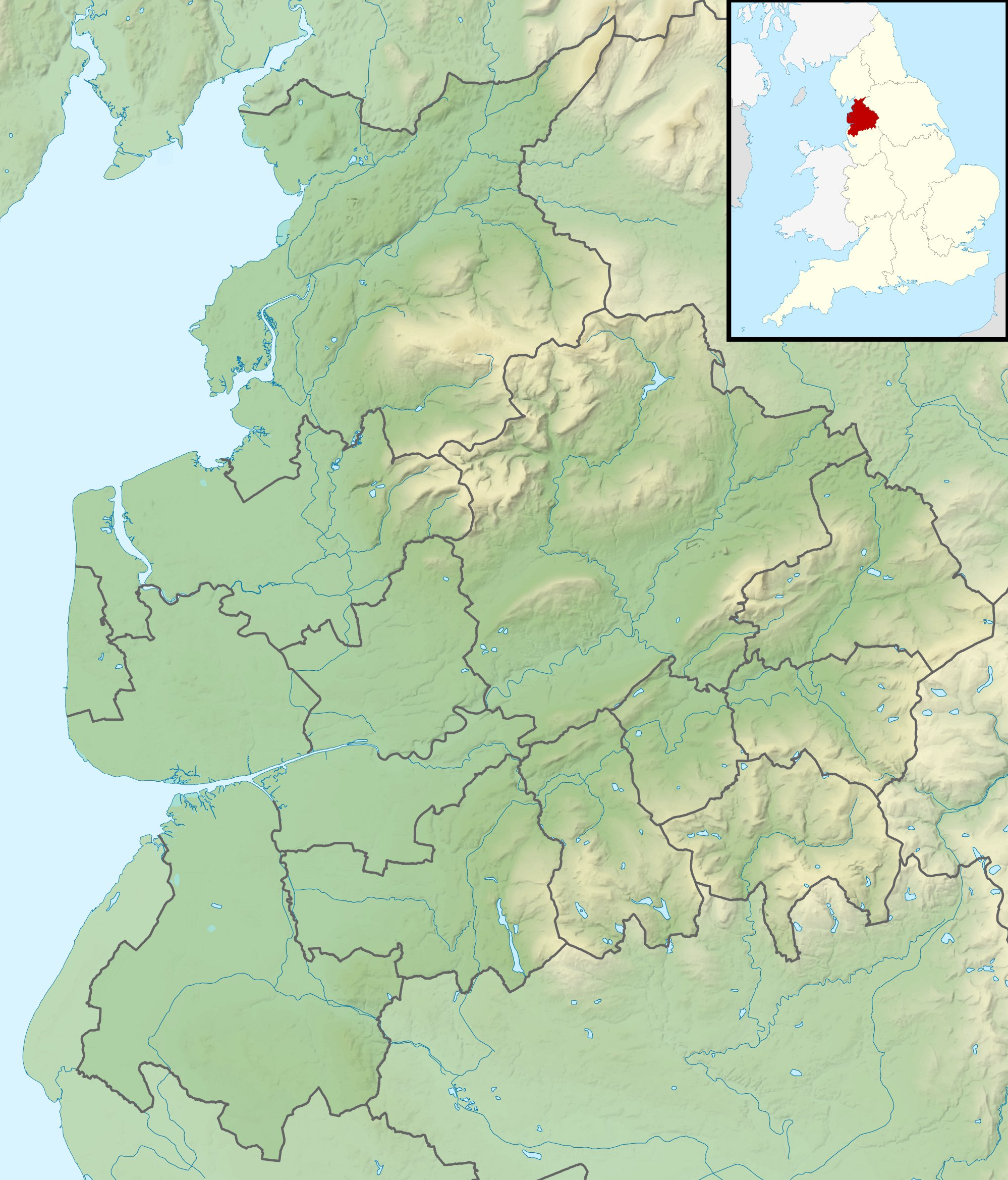 Relief map of Lancashire, UK. Equirectangular map projection on WGS 84 datum, with N/S stretched 165% Geographic limits: West: 3.13W East: 2.03W North: 54.25N South: 53.47N